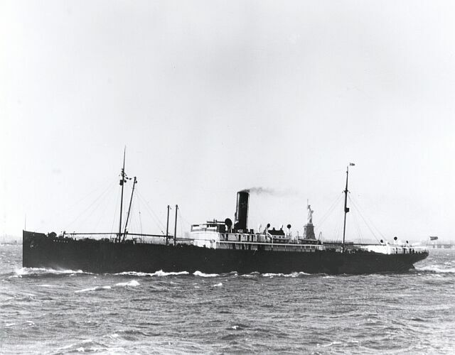 SS Medina at the end of her maiden voyage. Or: SS Medina passes the Statue of Liberty as she heads off for her maiden voyage.